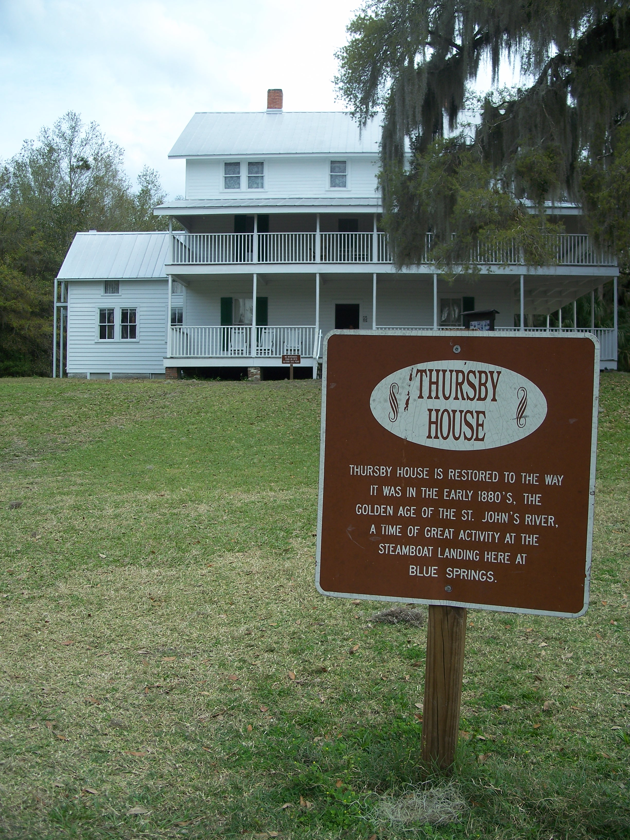 Sign outside the Thursby House in Blue Spring State Park, near Orange City, Florida